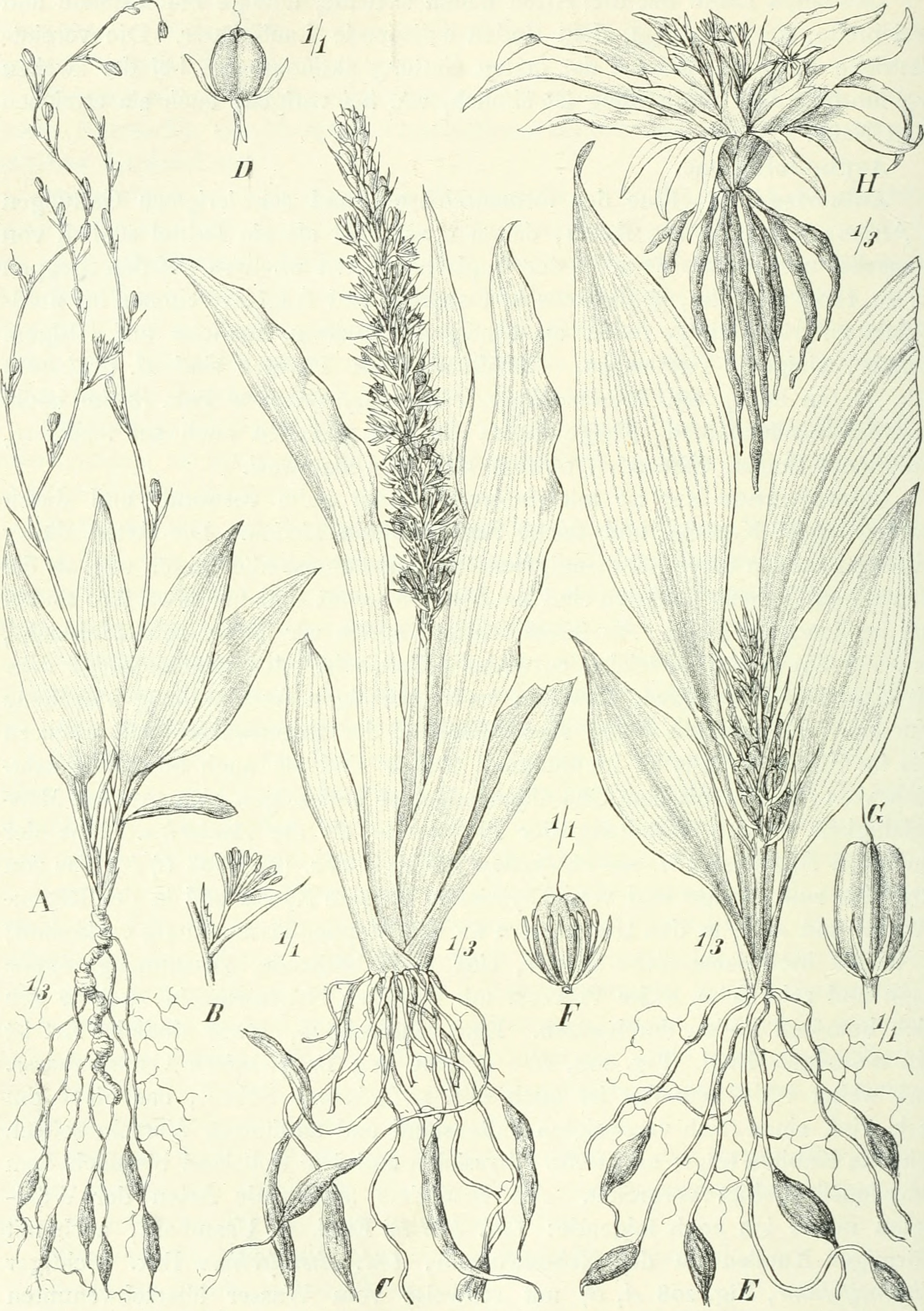 Title: Die Pflanzenwelt Afrikas, insbesondere seiner tropischen Gebiete : Grundzge der Pflanzenverbreitung im Afrika und die Charakterpflanzen Afrikas Year: 1910 (1910s) Authors: Engler, Adolf, 1844-1930 Subjects: Botany Publisher: Leipzig : W. Engelman Text Appearing Before Image: 308 Liliiflorae. — Liliaceae. Text Appearing After Image: Fig. 208. A, B Chlorophytum alismifolium Bak. (Kamerun). C, D Chi. macrophyllum (Rich.l Aschers. (Kilimandscharo, Kiiltnrregion.) £—6" Chi. amaniense Engl. // Chi. Scliimperi Engl.; (Abyssinien.) — Original.